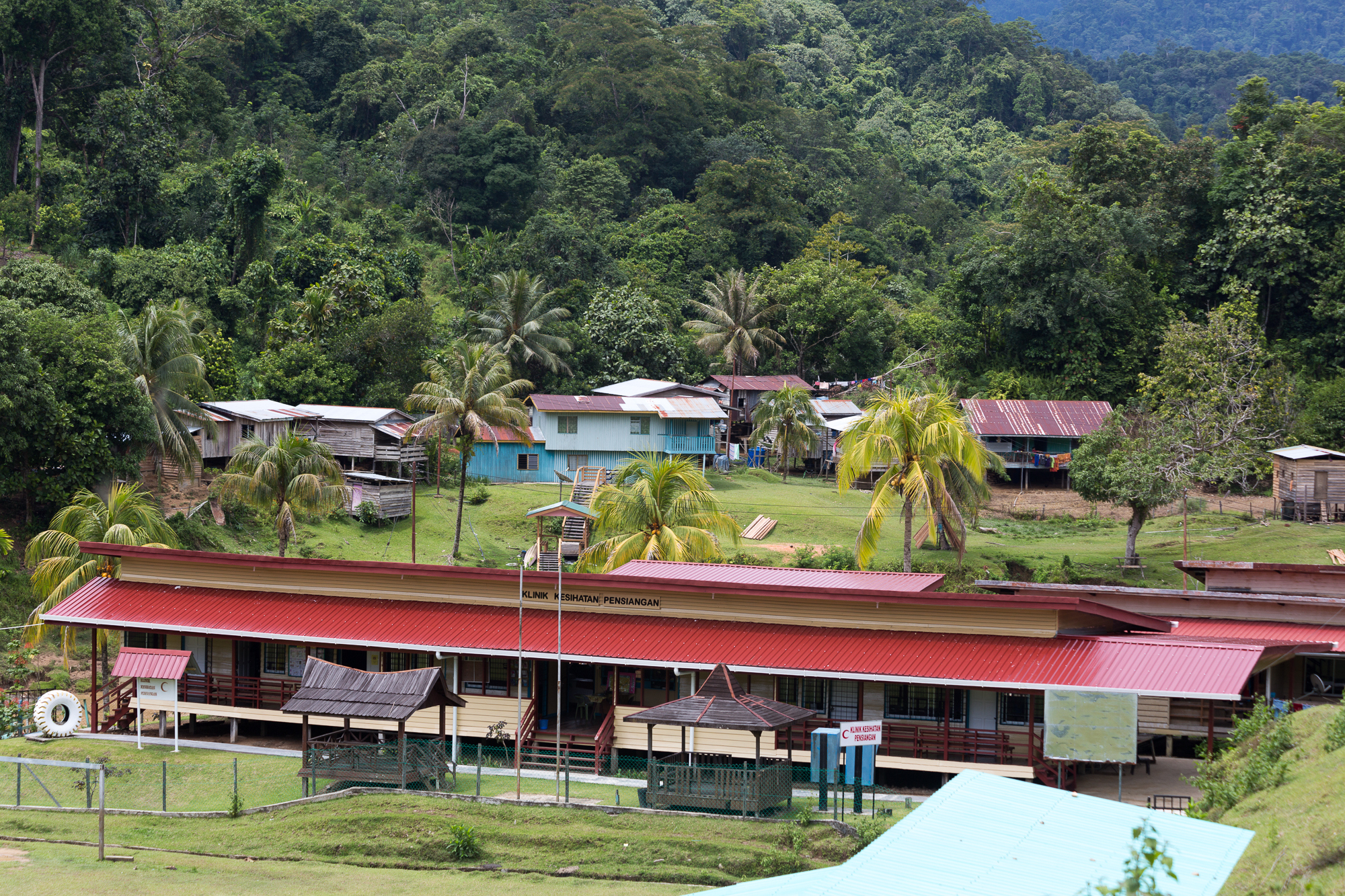 Pensiangan, Sabah, Malaysia: Hospital (Klinik Kesihatan Pensiangan